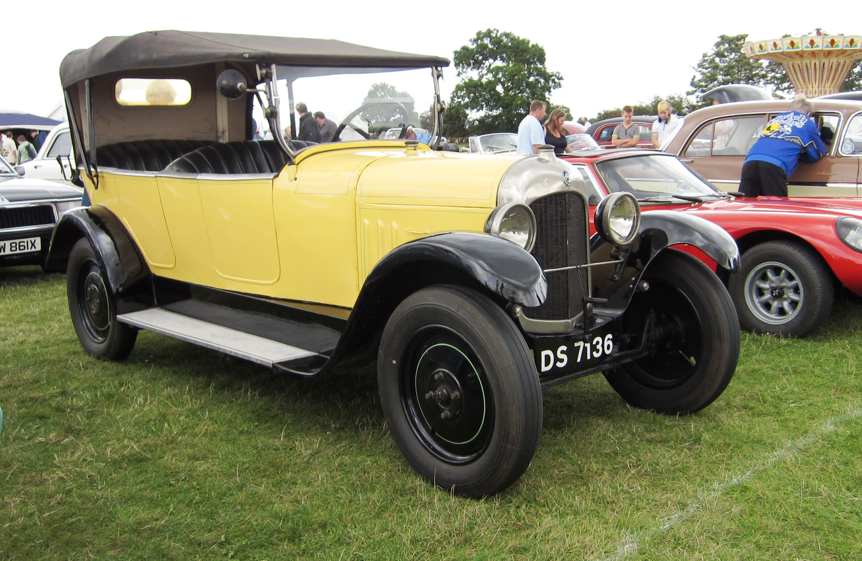 Citroen B2 built 1921 Torpedo body